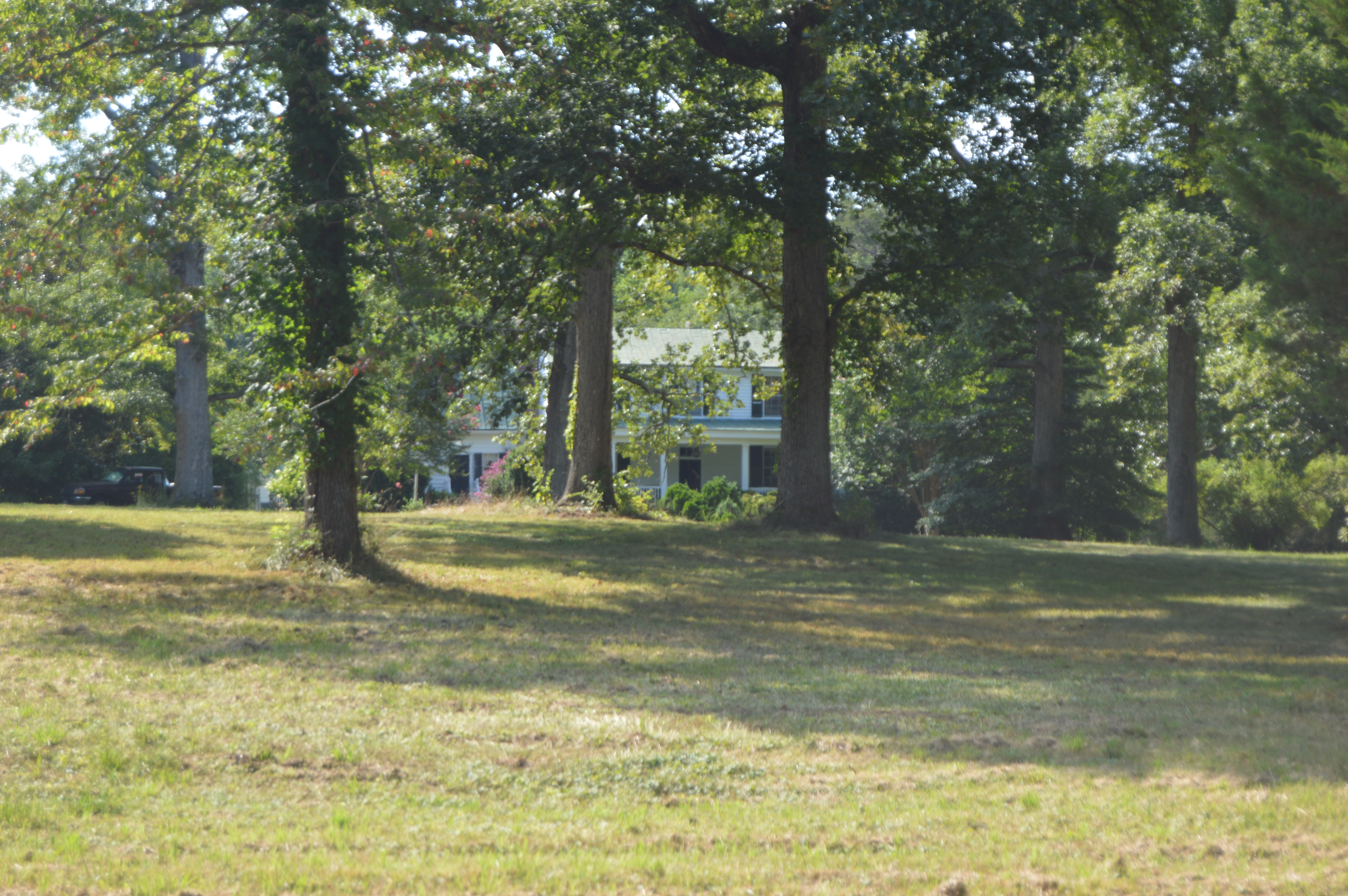 Roadside view of Oak Grove, located at 664 Manakin Road in eastern Goochland County, Virginia, United States. Built in 1850, it is listed on the National Register of Historic Places.